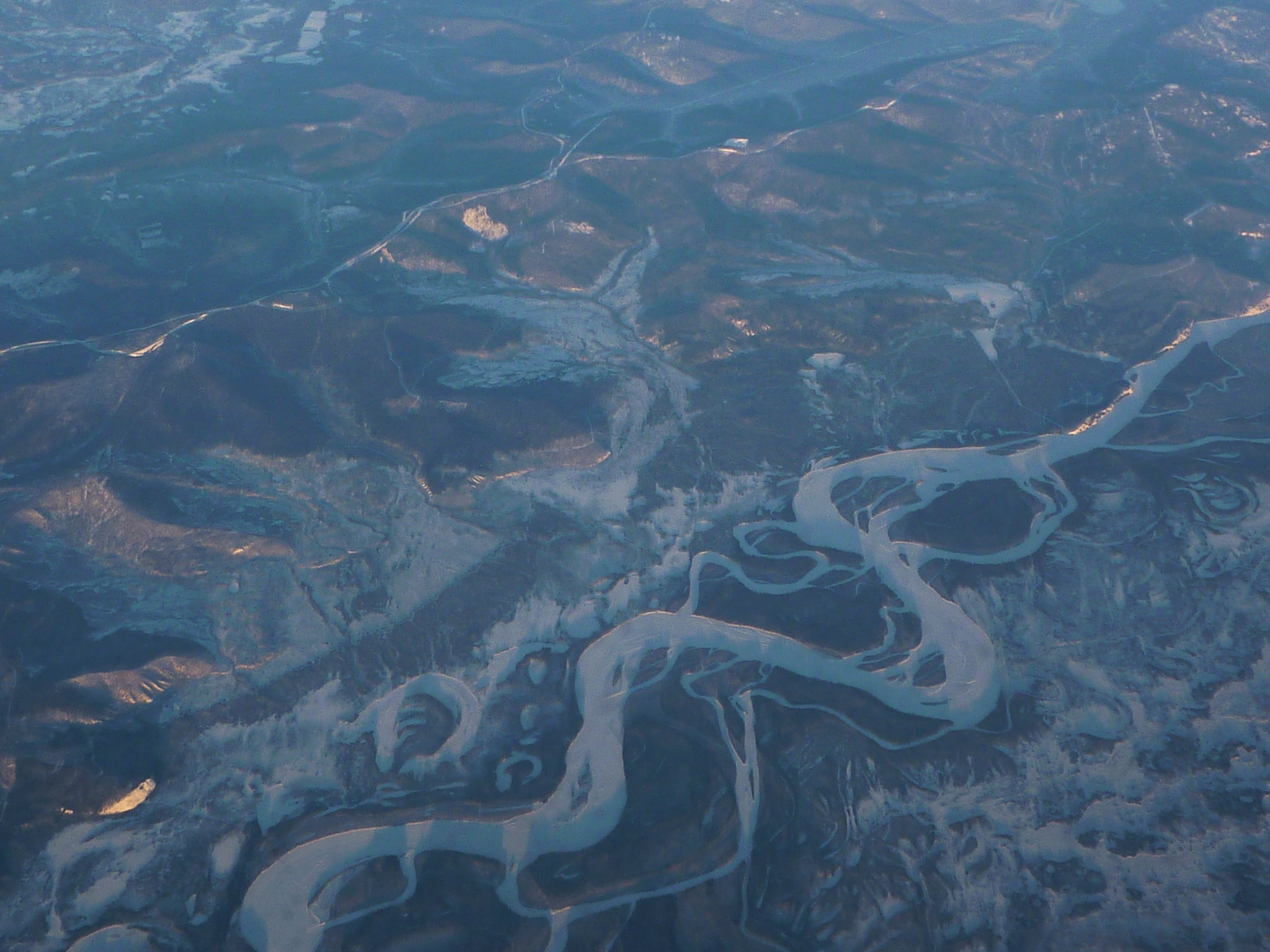 Aerial view of the Tanana River Valley about 10 miles west of Fairbanks Airport. Seen from a non-stop AA flight Chicago-Beijing. Can be matched to Google Maps sat view easily.